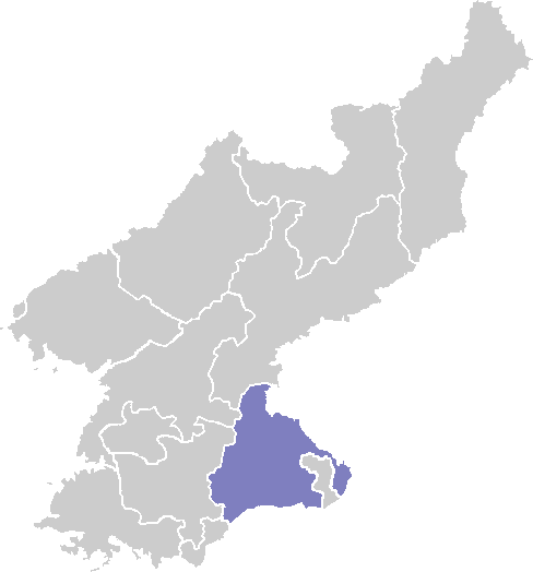 Area map of Kangwon-do (North Korea) province